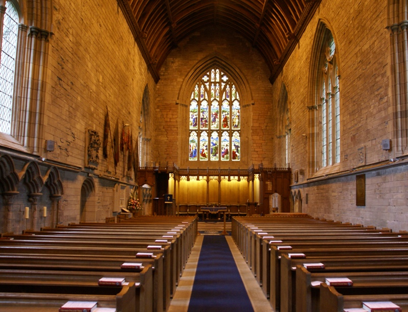 Dunkeld Cathedral, Dunkeld, Perth and Kinross, Scotland - choir interior (current parish church)